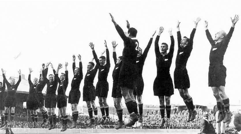 The All Blacks at the climax of their haka before the 1932 test against Australia at the exhibition ground, Brisbane.